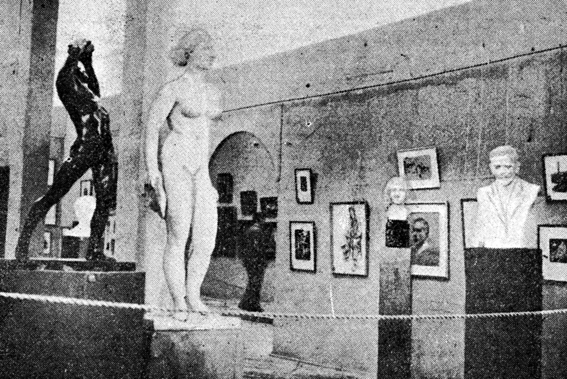 Artistic exhibition-Thessaloniki International Trade Fair, 1937